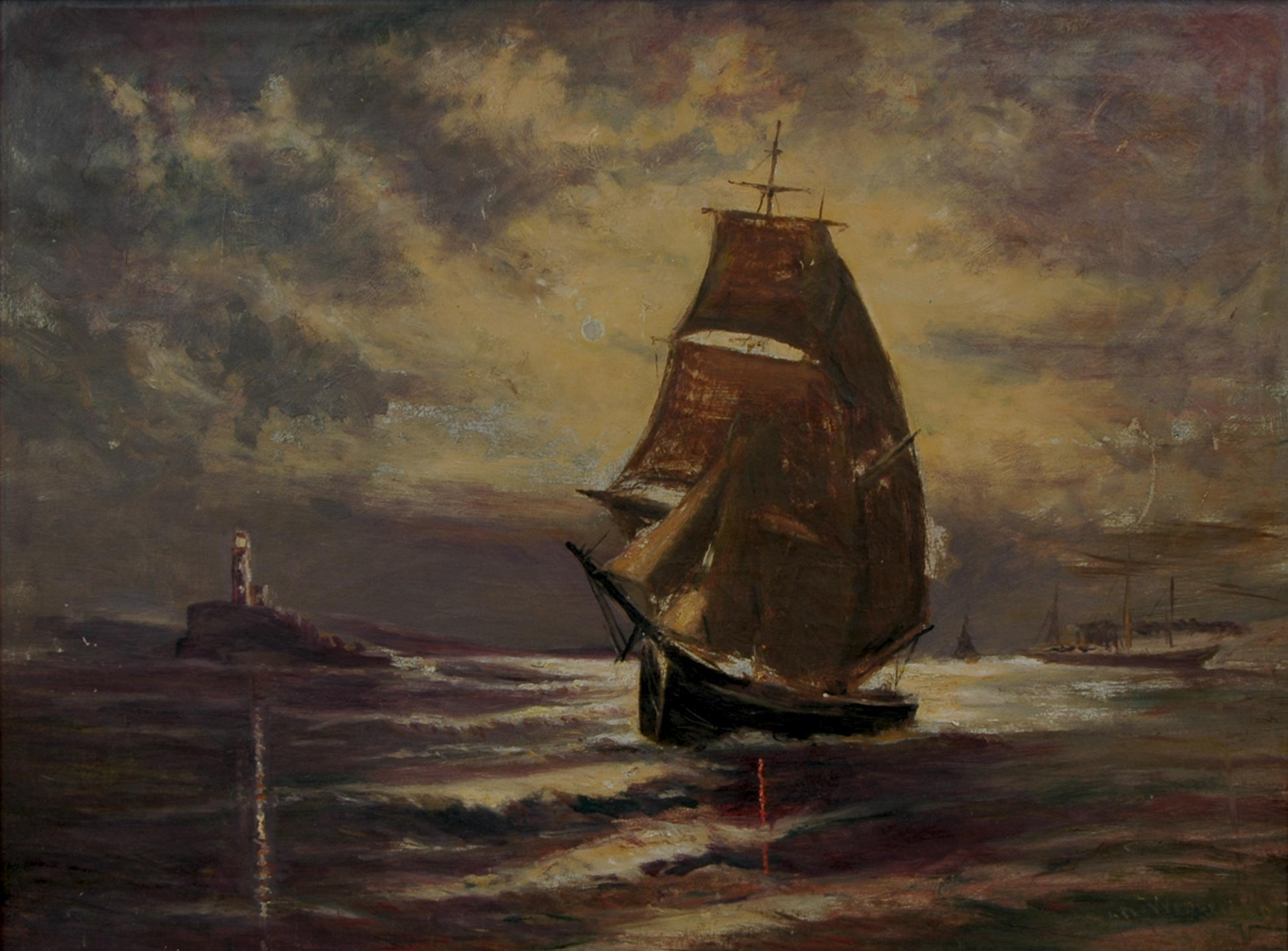 Untitled